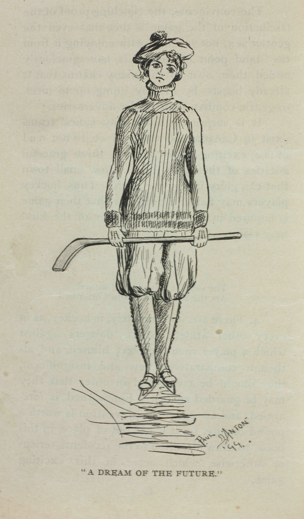 Illustration of a female ice hockey player